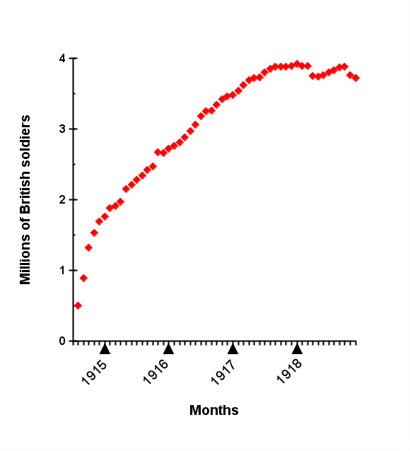 size of British army during WW1. ORs only.